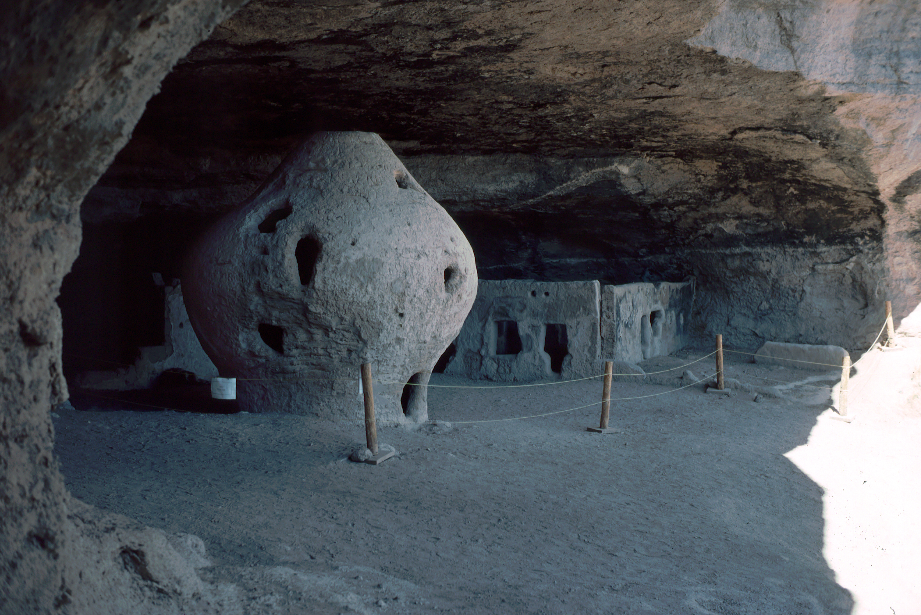 Cueva de la Olla, Chihuahua, Mexico. Its diorama is displayed in El Paso Museum of Archaeology.